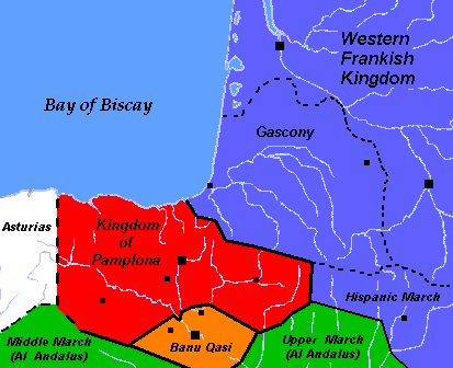 Author: Sugaar Source: Mostly the Albeldensis chronicle [1] Summary: The Kingdom of Pamplona at the death of Sancho Garcés c. en:925.